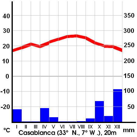 Casablanca monthly average maximum temperature and rainfall. Data script